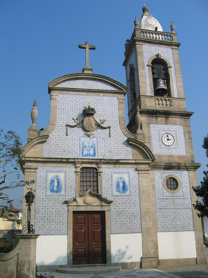 Church of Nogueira - Maia - Portugal